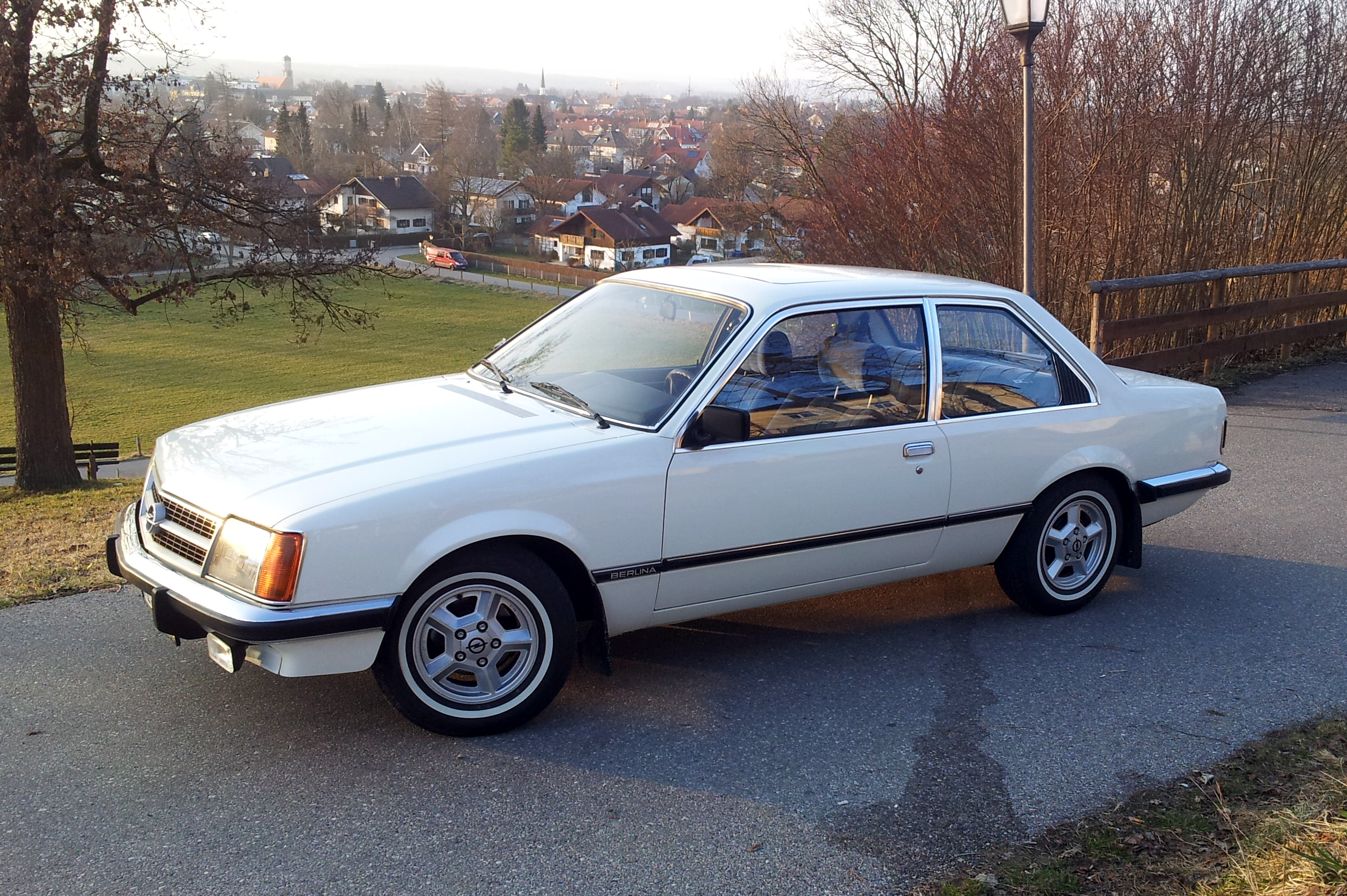 Rare 2-door version of the Opel Commodore C. Only 5400 were ever made.